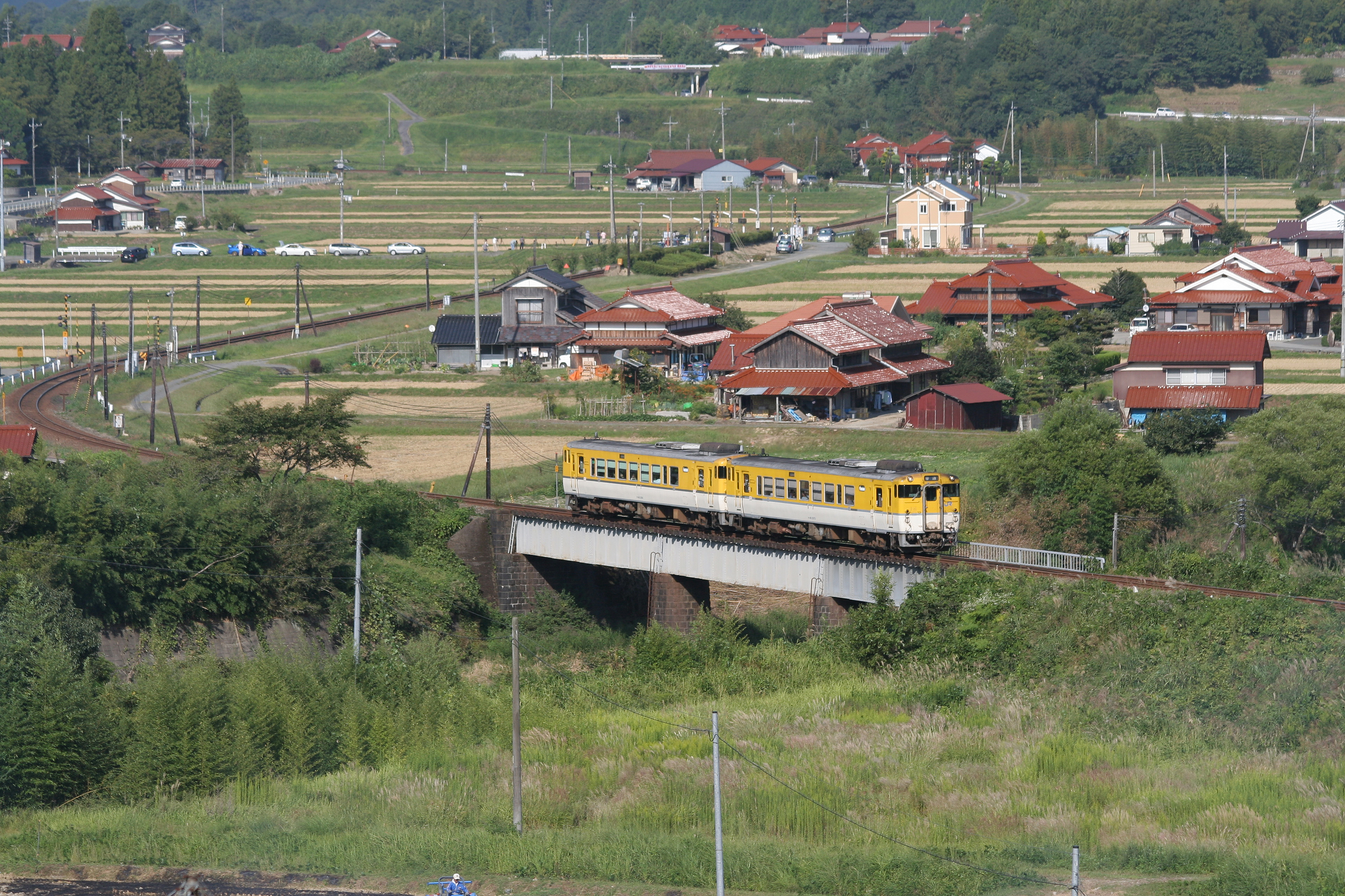 A pair of JR West KiHa 40 series DMU cars on a Yamaguchi Line all-sdtations "Local" service